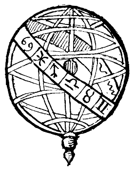 Sphere used in the frontispiece of works printed by the Dutch printers Elzeviers under the assumed name of Pierre Marteau